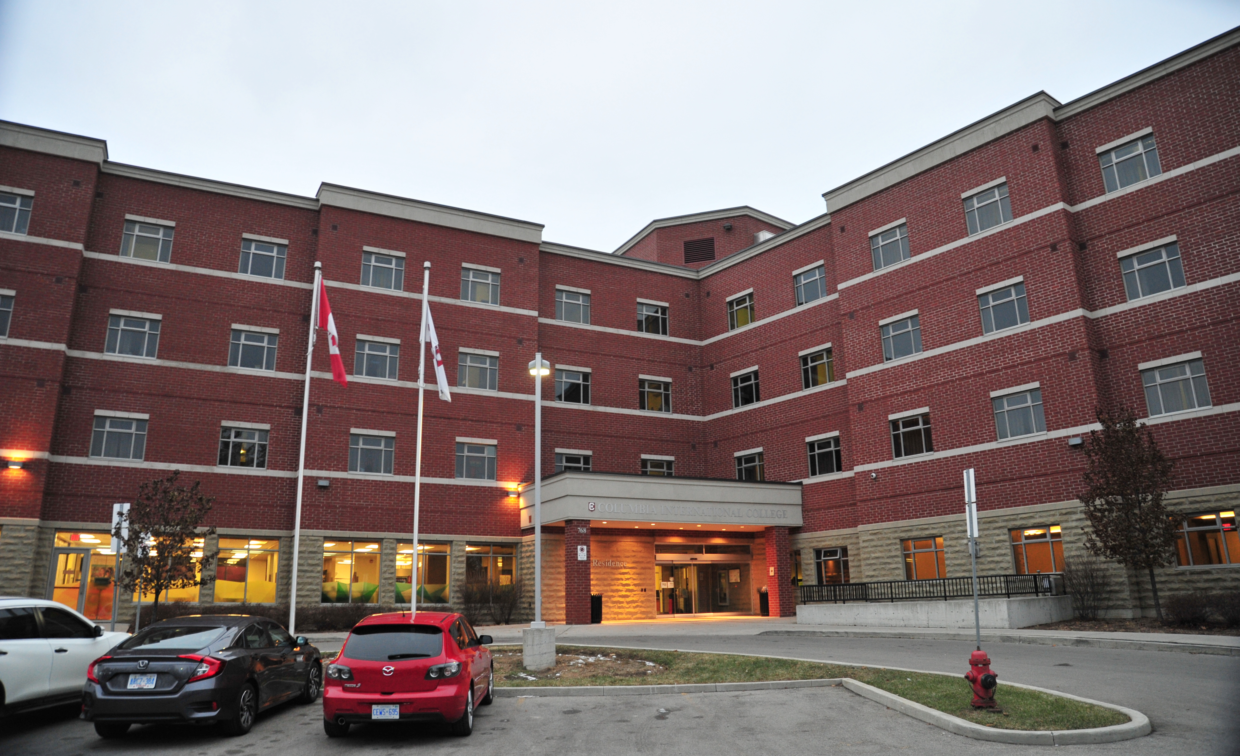 Pine Girls Residence, Columbia International College